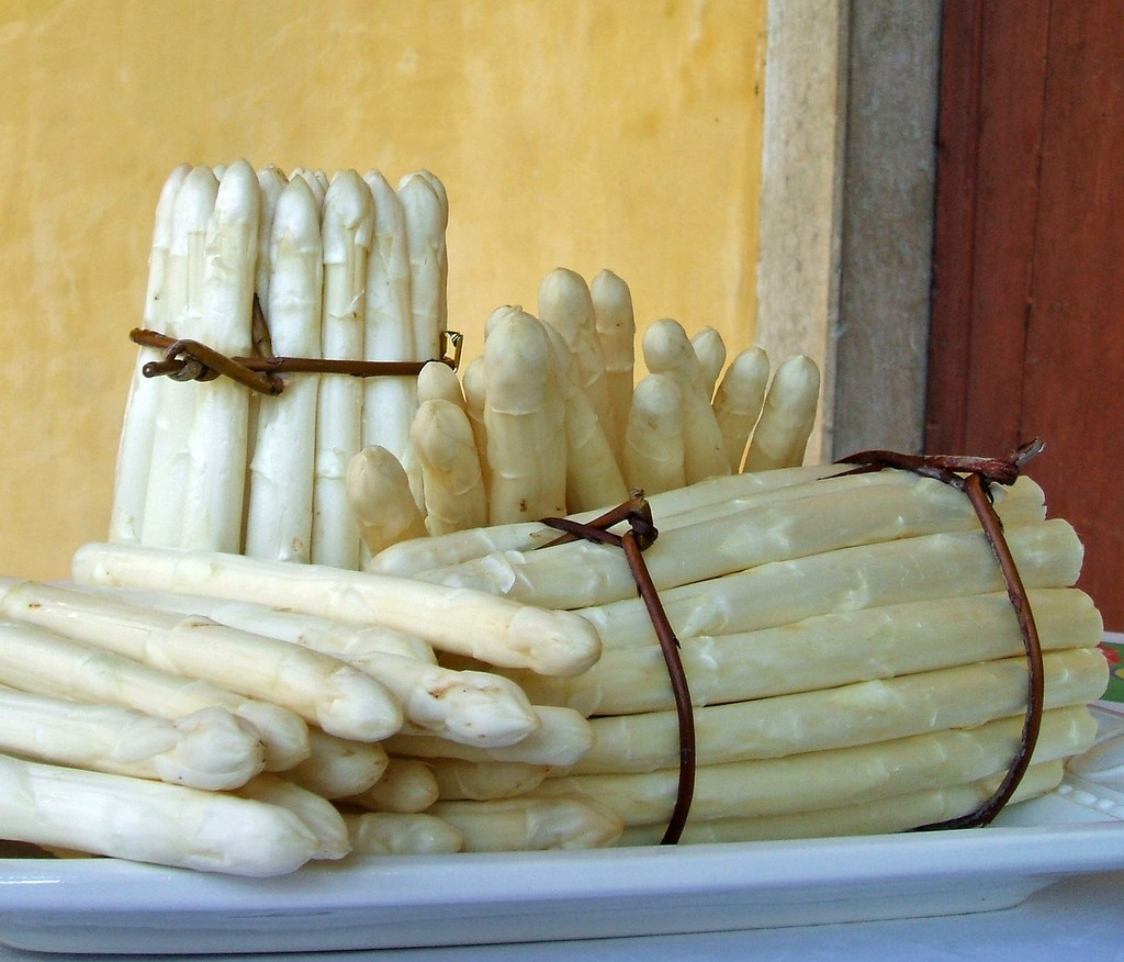 Asparago Bianco di Bassano del Grappa - Italia.